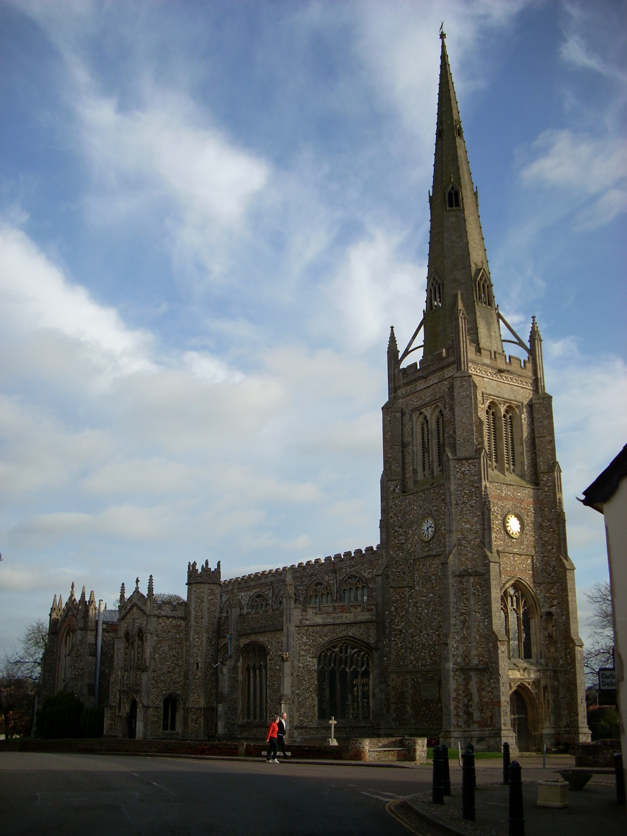 Front view of the church of St John the Baptist, our Lady and St Laurence, Thaxted, Essex, England